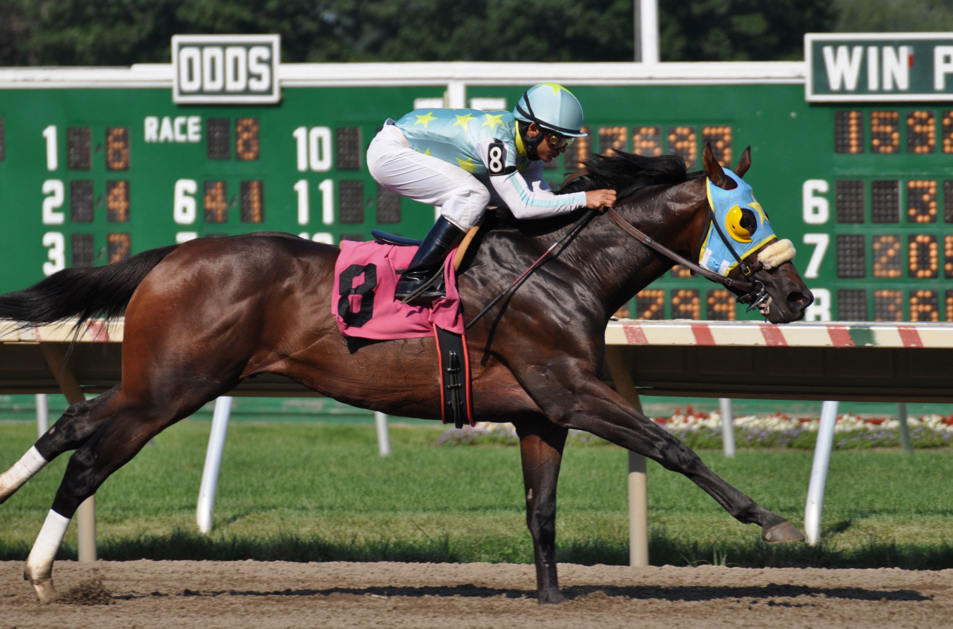 Elvis Trujillo on Silent Appeal Monmouth Park-August 20, 2011